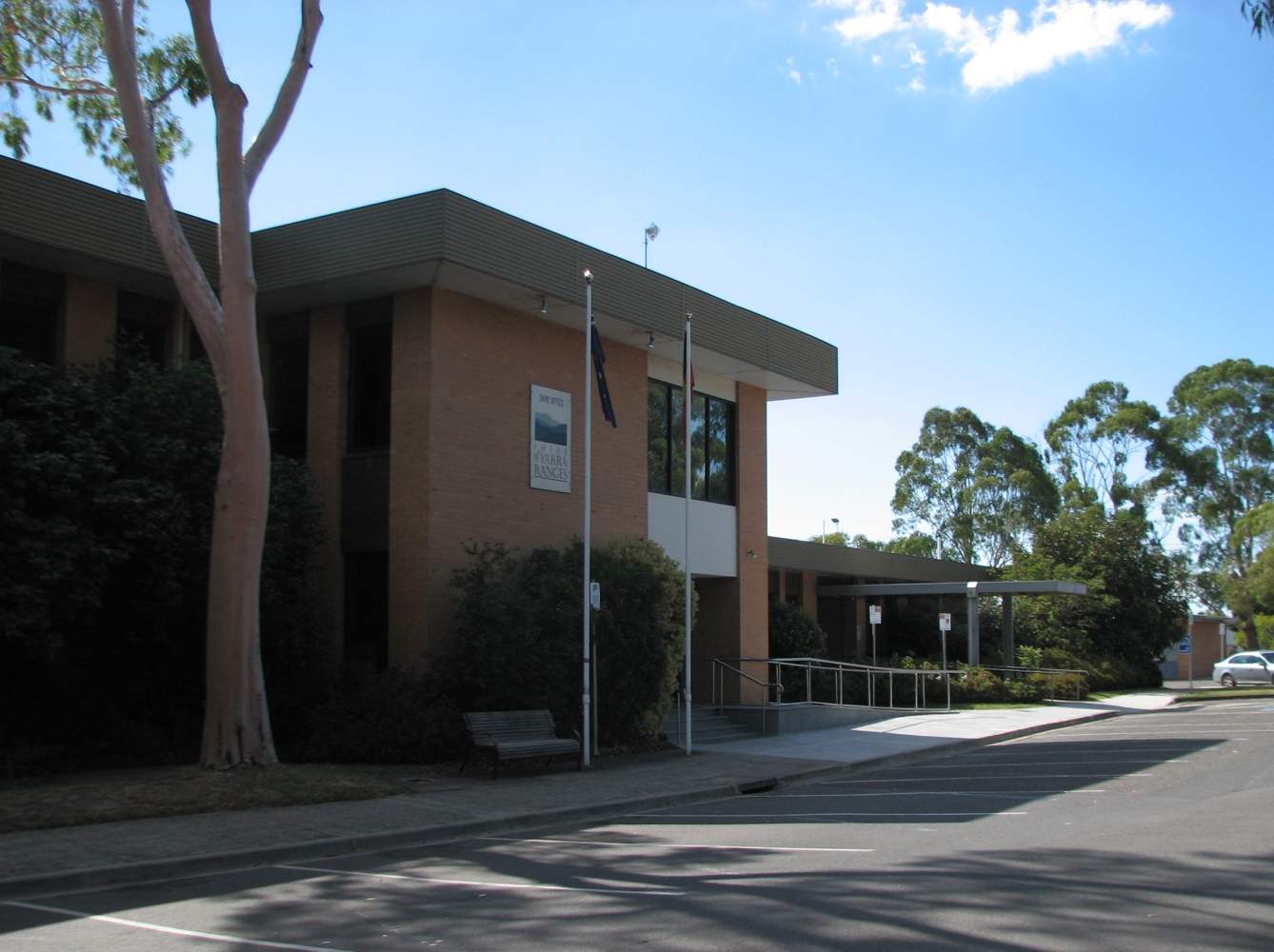 Shire of Yarra Ranges council offices, Lilydale, Victoria, Australia